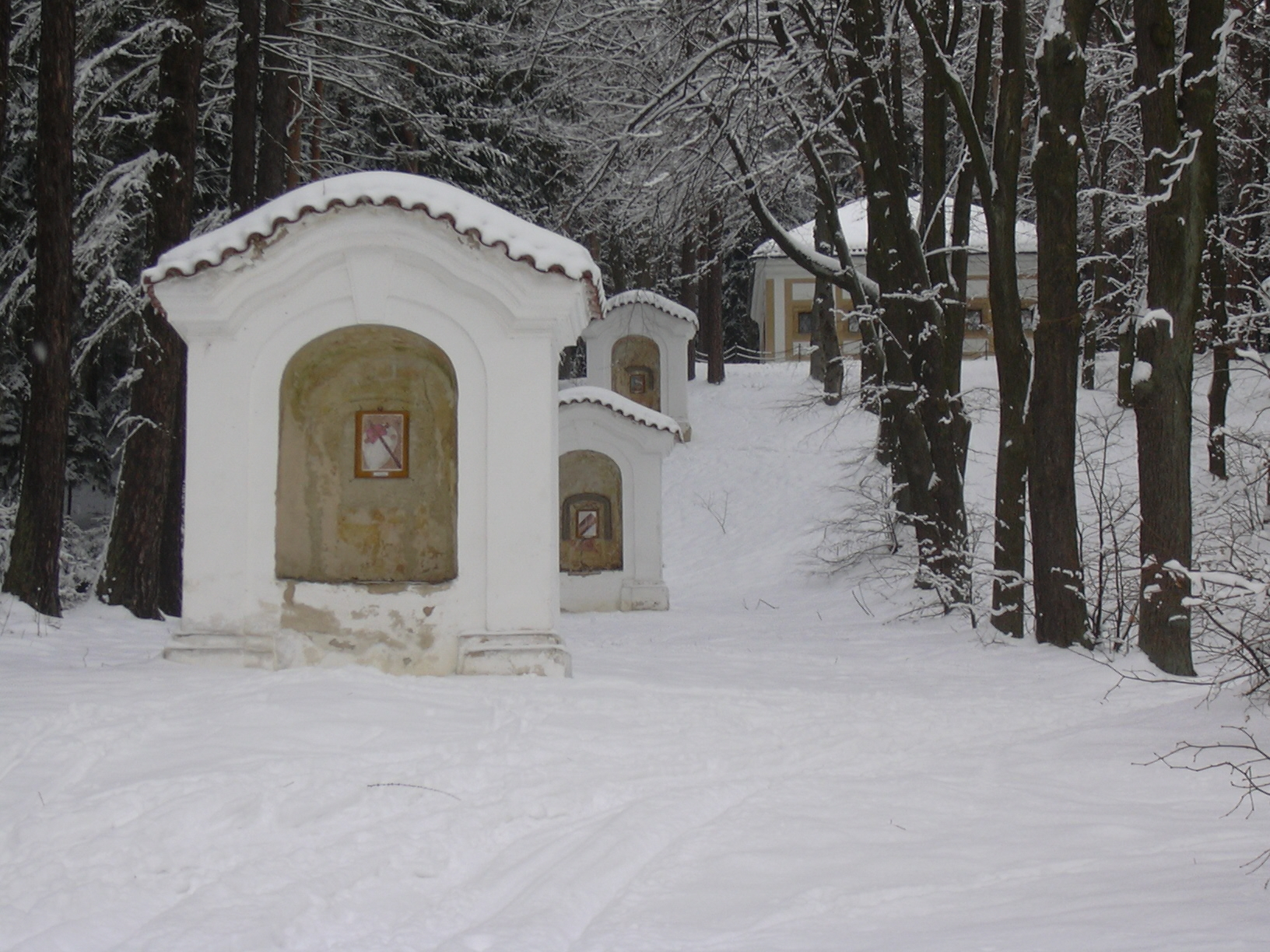 Stations of the Cross on Skalka (hill on Hřebeny ridge SW from Prague)